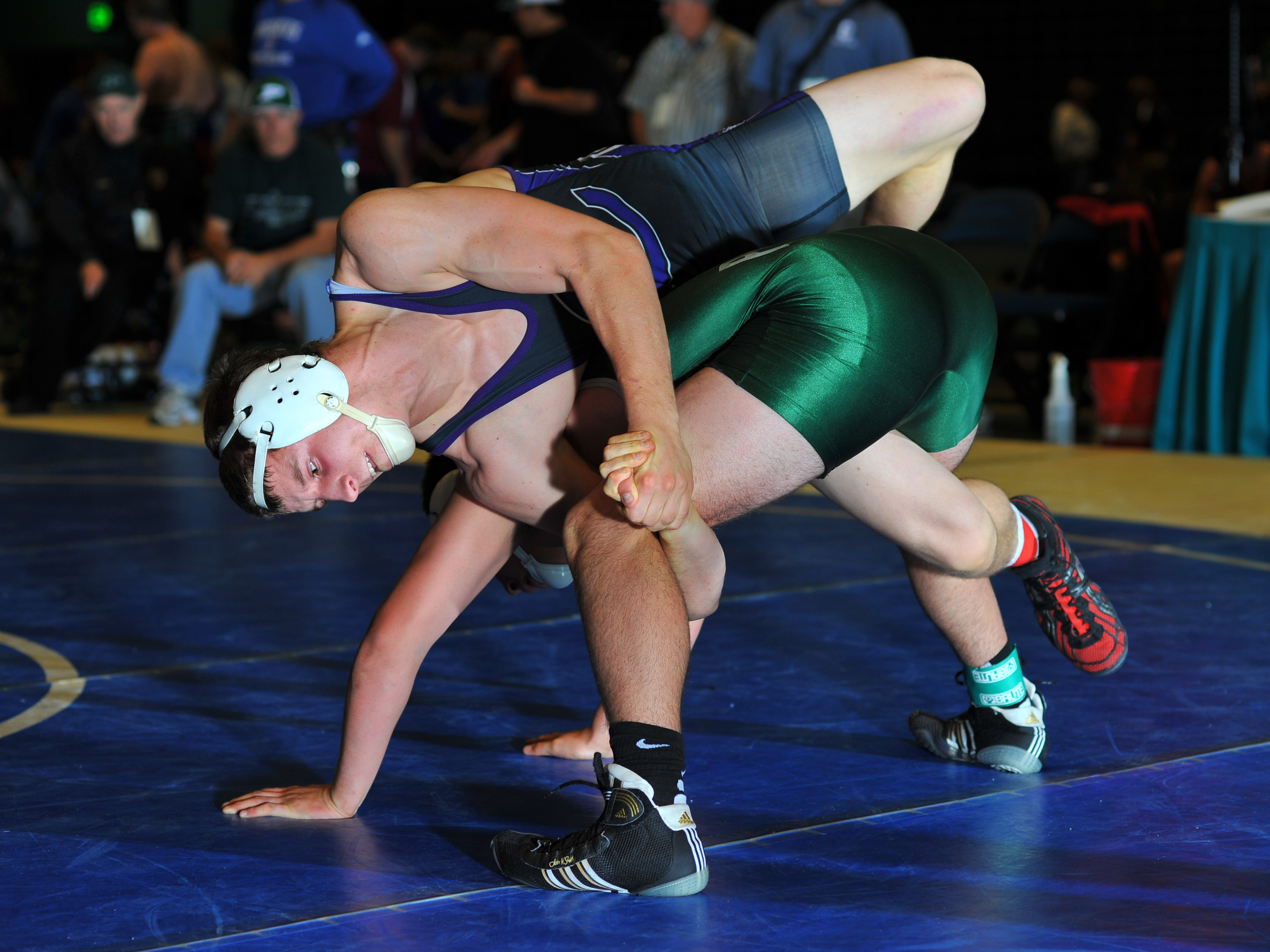 Man in the process of getting the spladle.